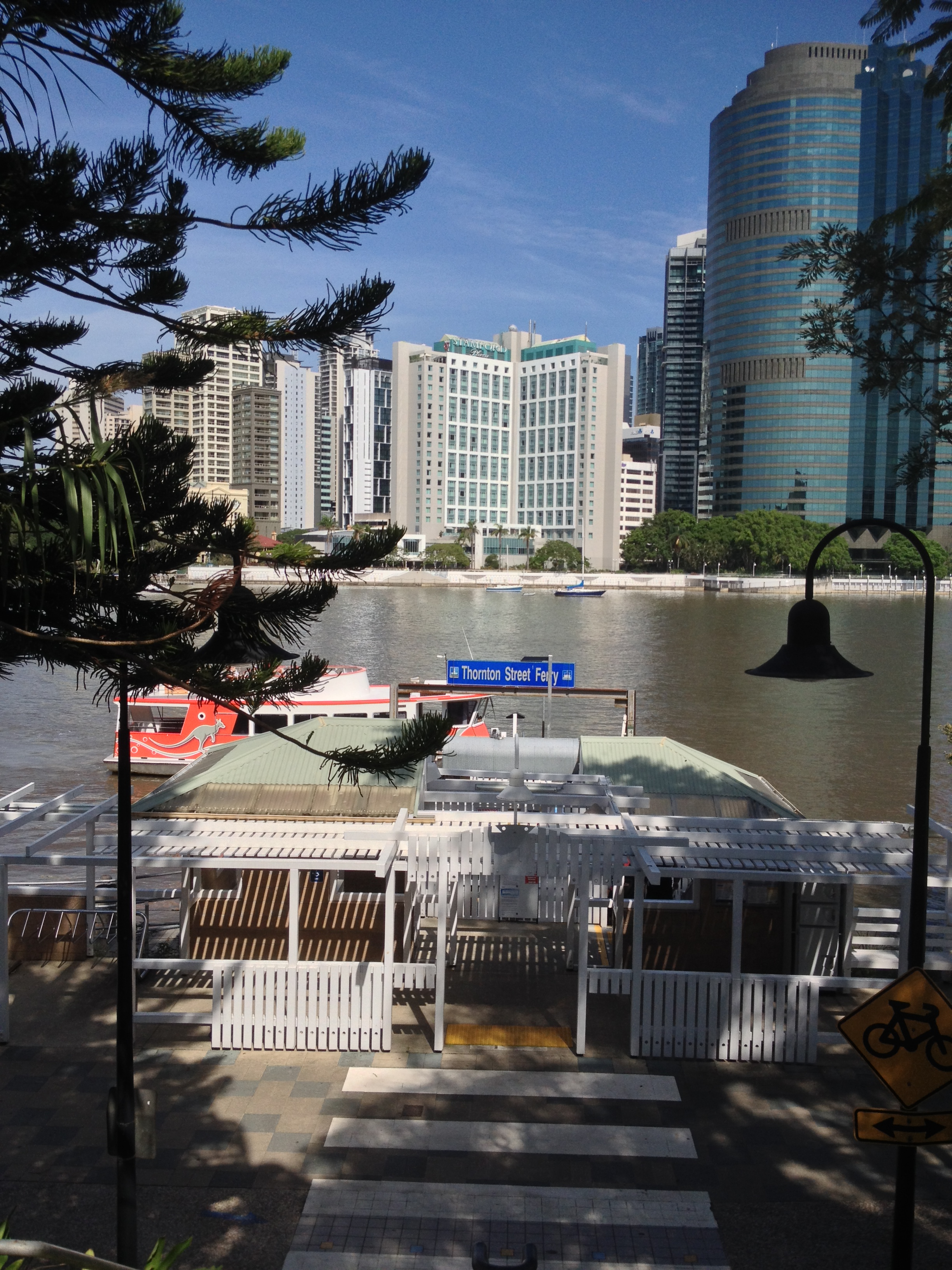 Thornton Street ferry wharf 02.2014